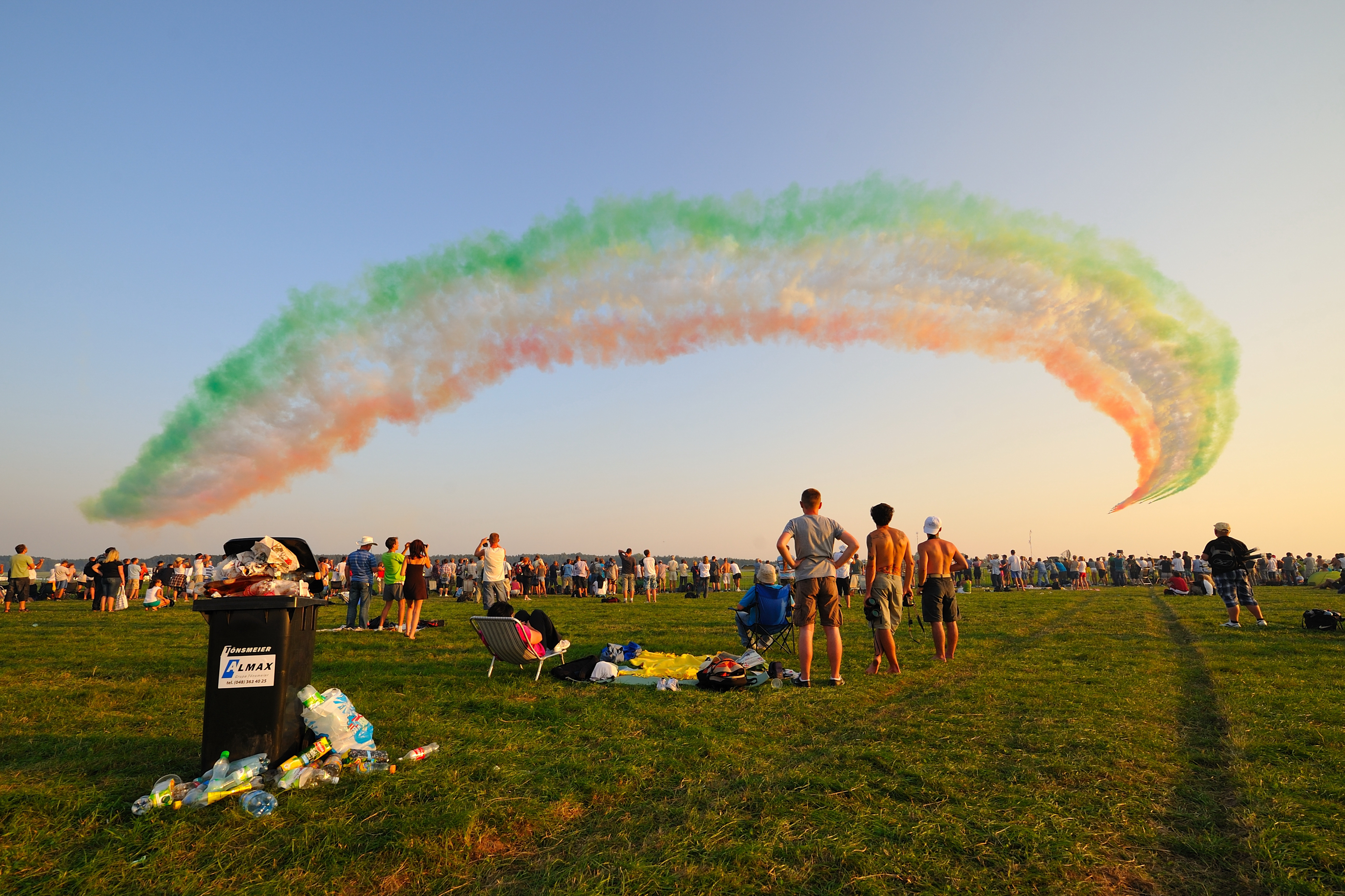 Frecce Tricolori @ Radom Airshow 2011